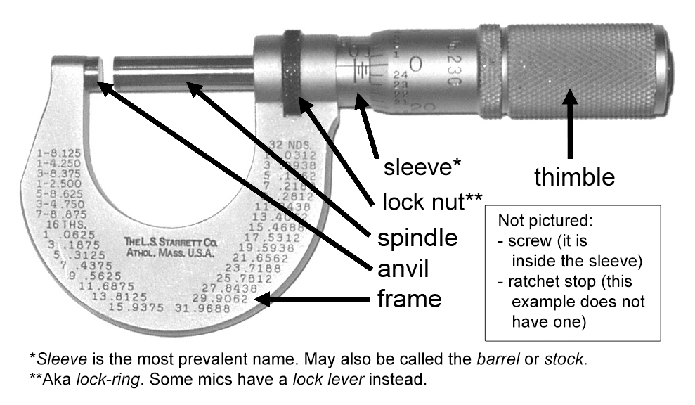 Parts of a micrometer caliper, labeled in English. Someone can replace this with a prettier version anytime.